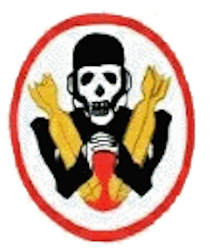 Emblem of the 428th Bombardment Group (World War II)